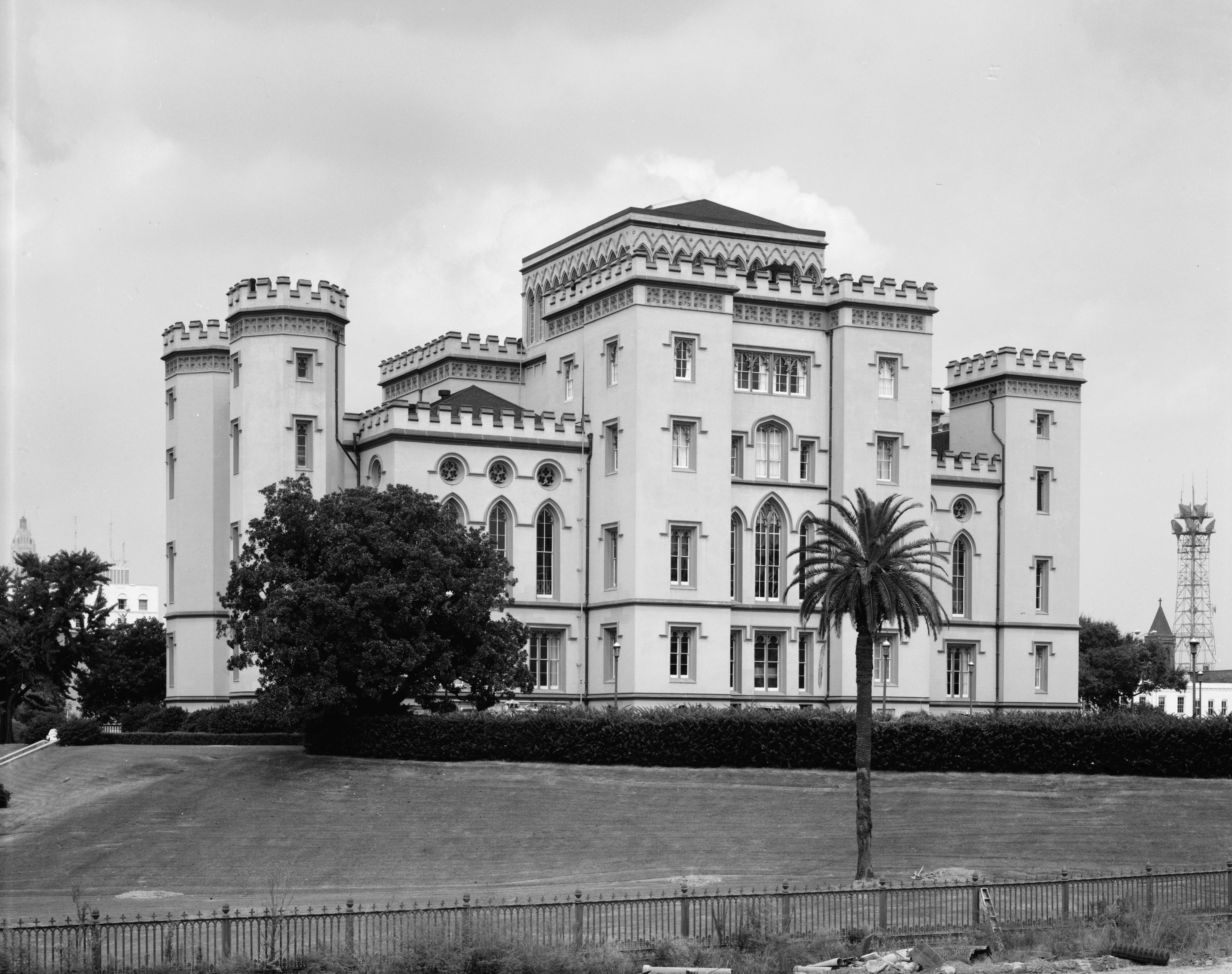 Old Louisana State Capitol building, South fascade from Southwest. Baton Rouge, Louisiana.